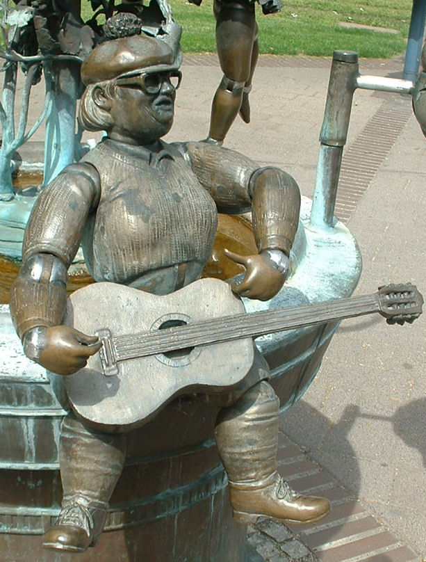 view of Ludwigshafen, Germany